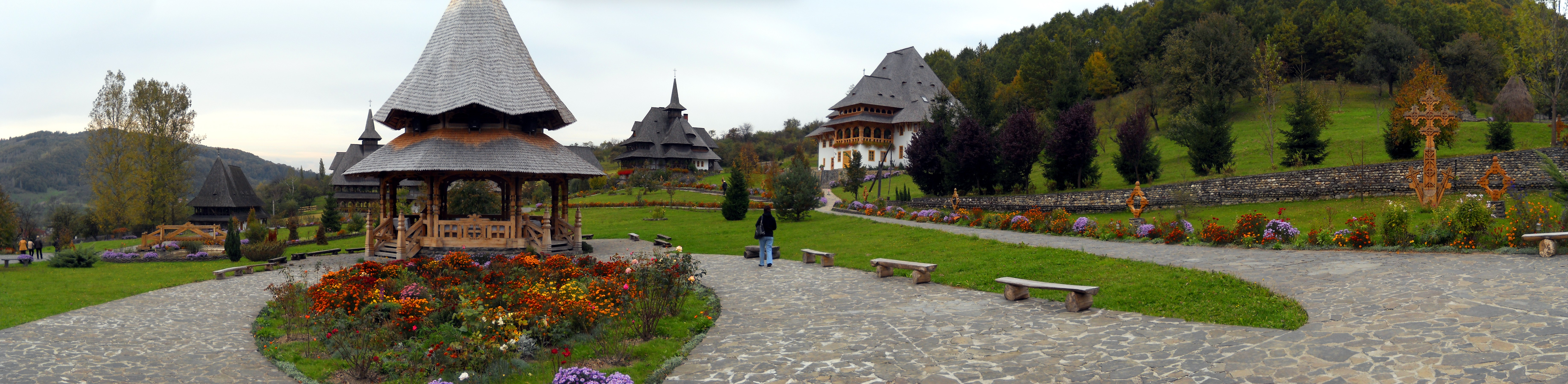 Bârsana Monastery, Maramureş County, Romania